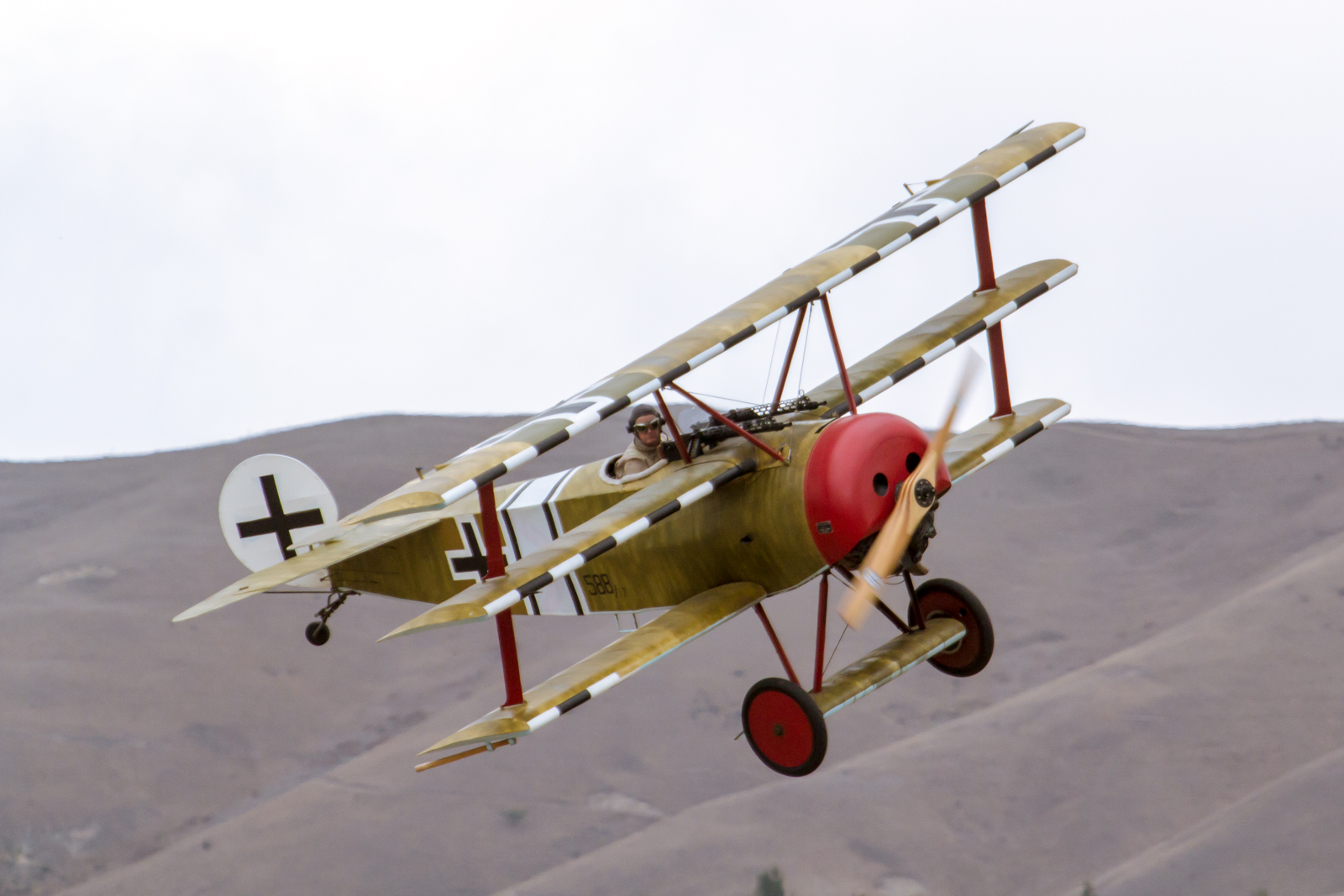 Classic Fighters 2015 - Fokker Dr I ZK-JOK